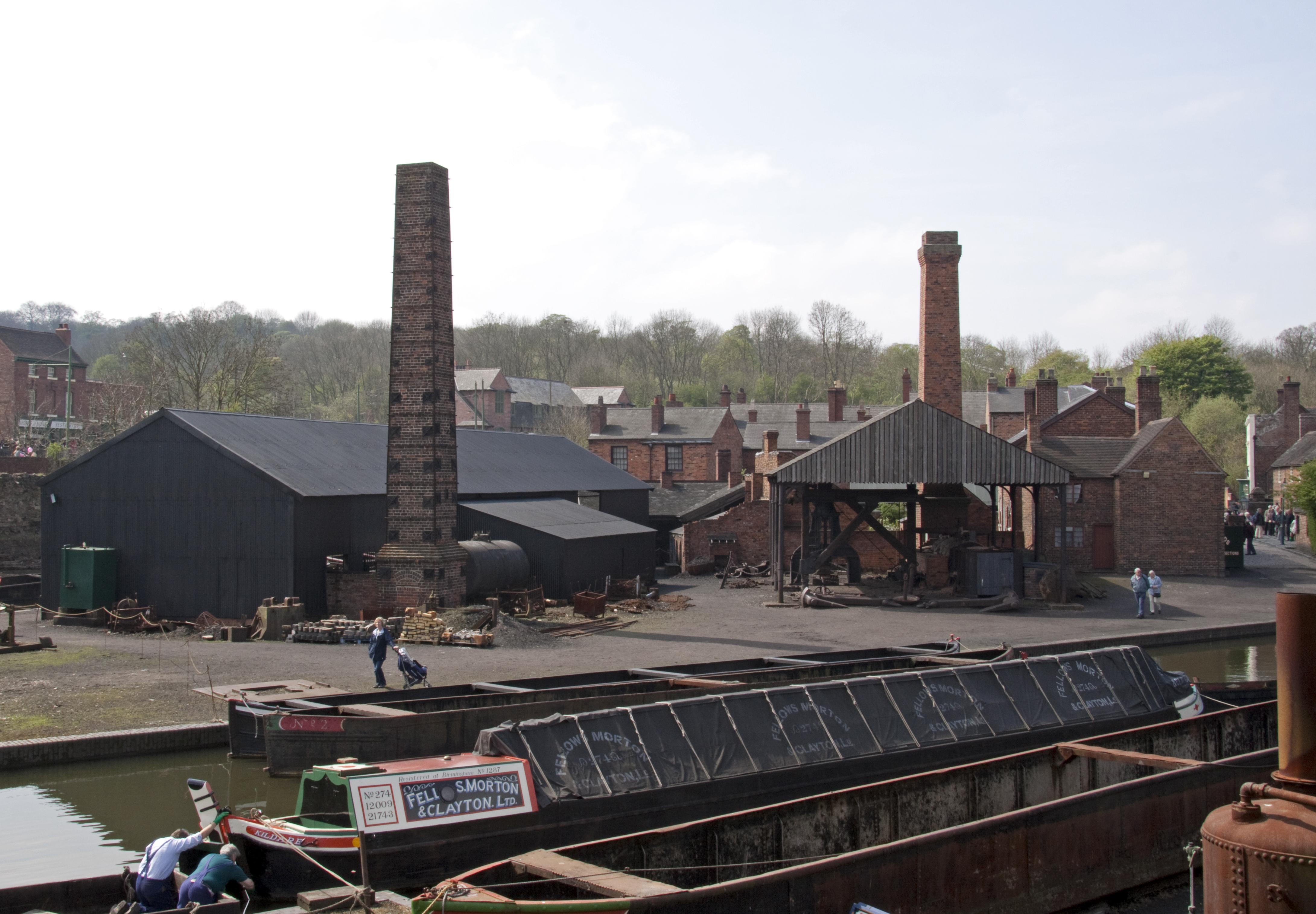 Black country museum 2